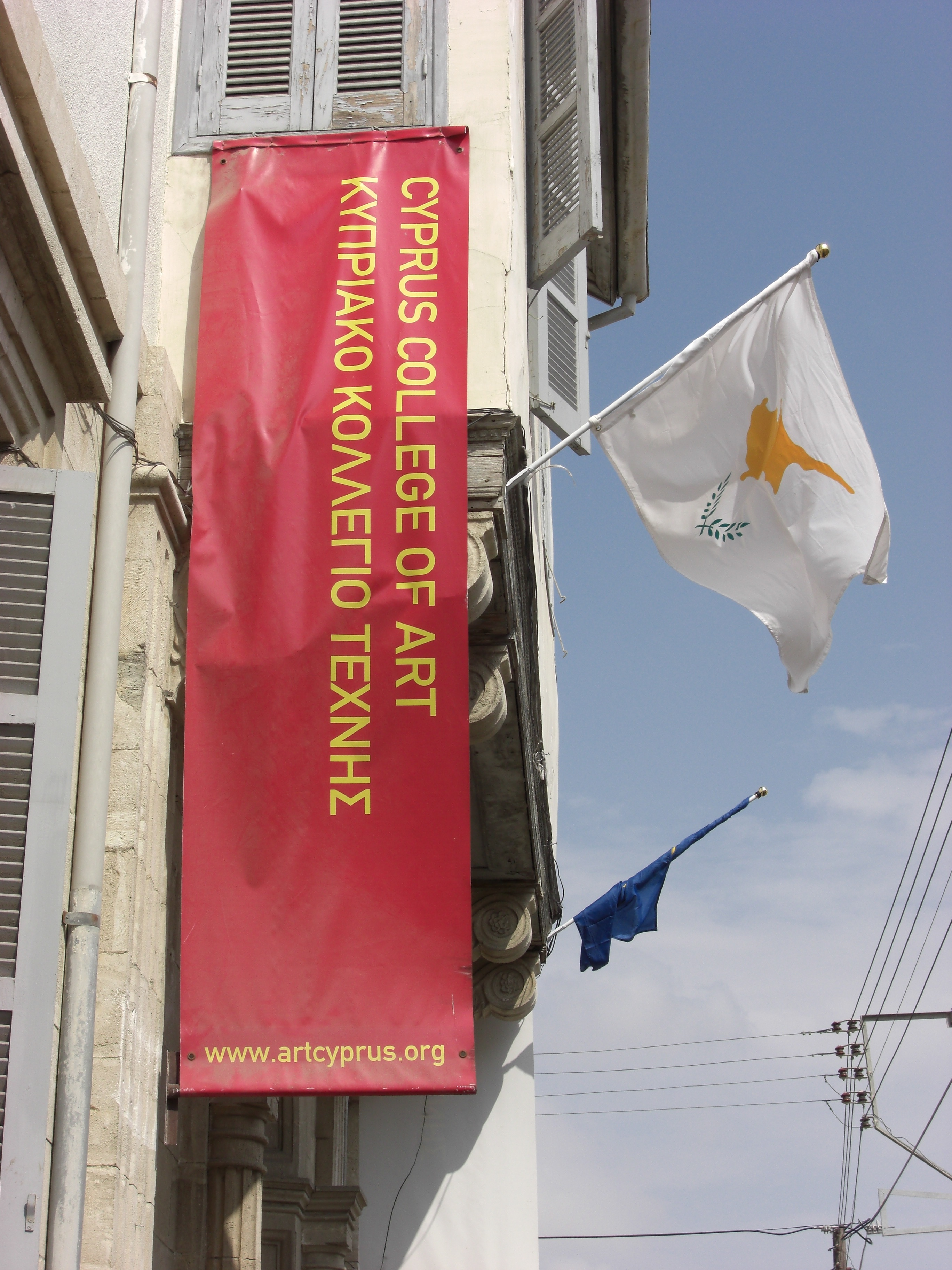 The front of the Cyprus College of Art (Cornaro Institute) in Larnaca